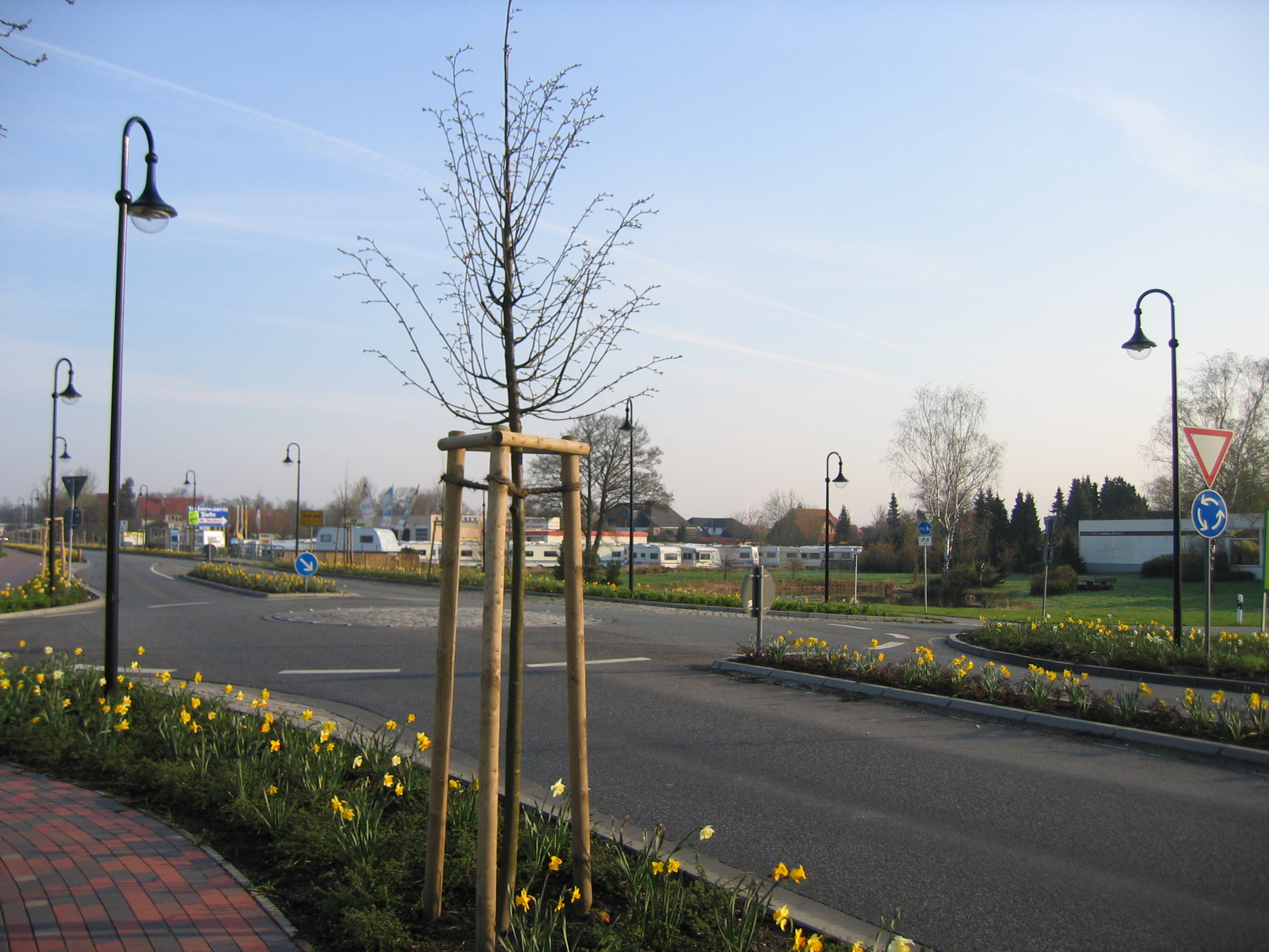 A "mini roundabout" in Jever.